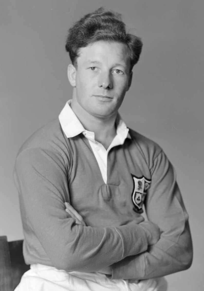 J W Kyle, member of the Lions, British representative rugby union team